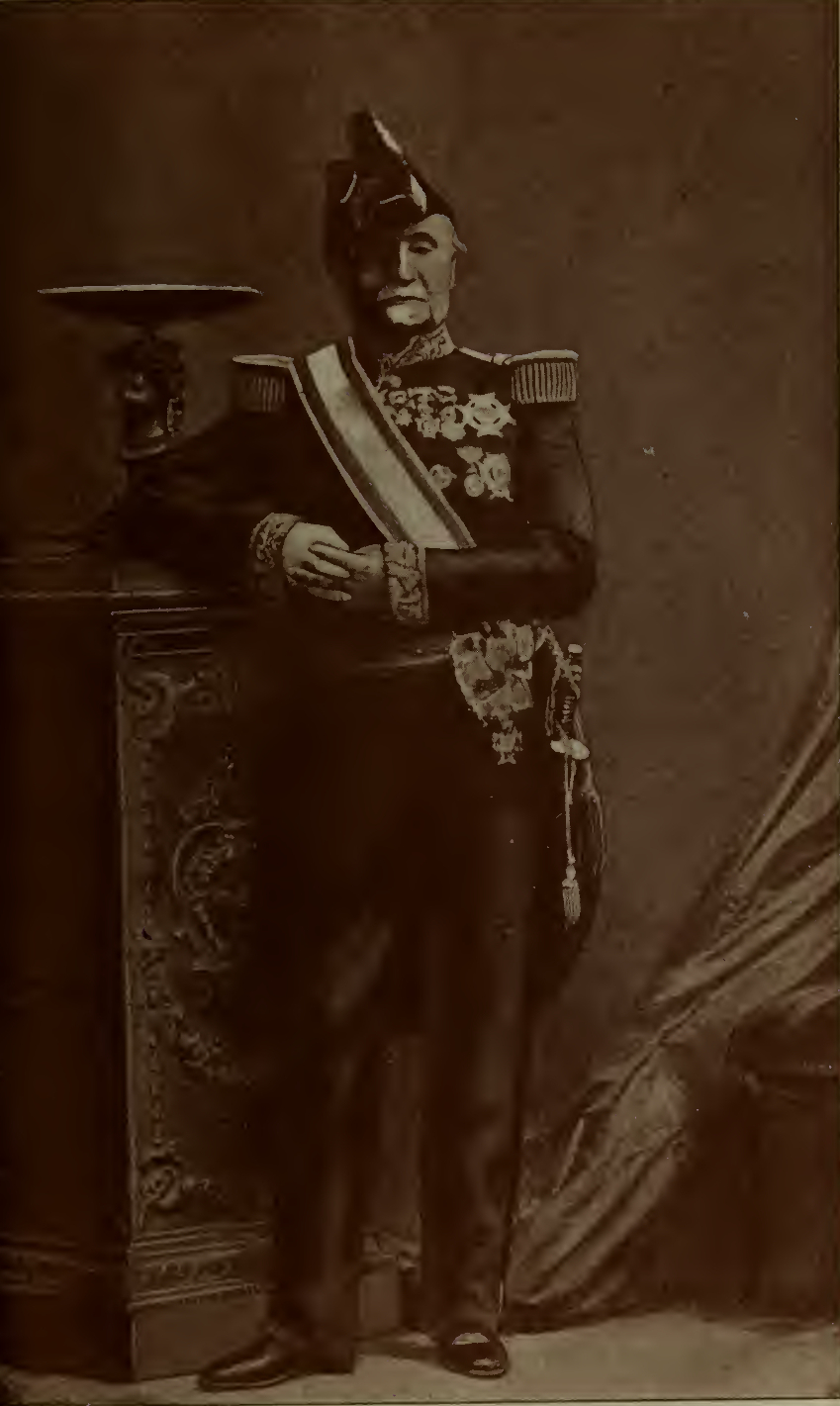 Portrait of French General Joseph Bernelle, commander of the French Foreign Legion in the French Army, and of the French Auxiliary Division in the Spanish Army